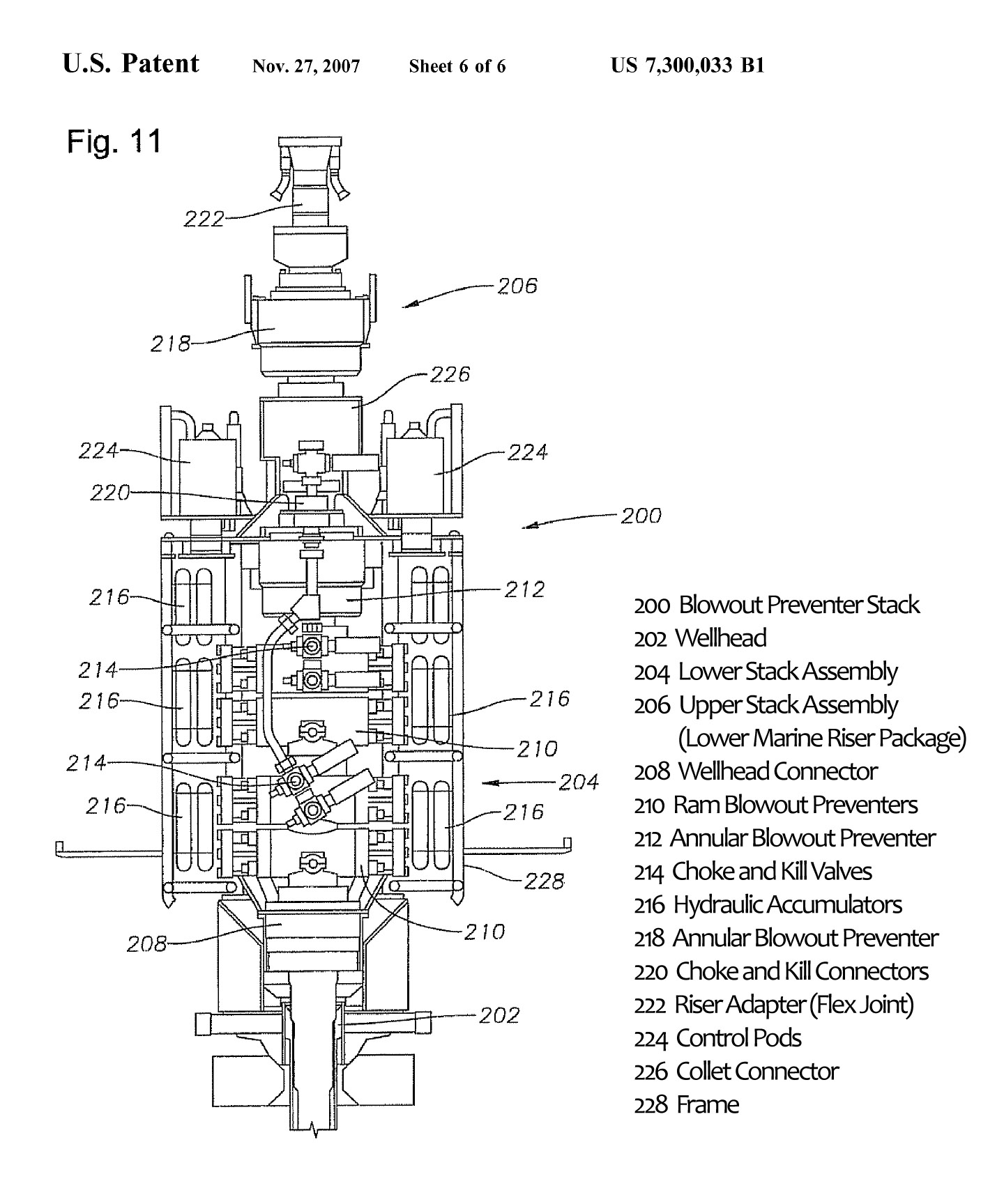 Annotated Patent Drawing of a Blowout Preventer Stack, U.S. Patent 7,300,033 (2007). Legend was added and figure locations were shifted. /* */